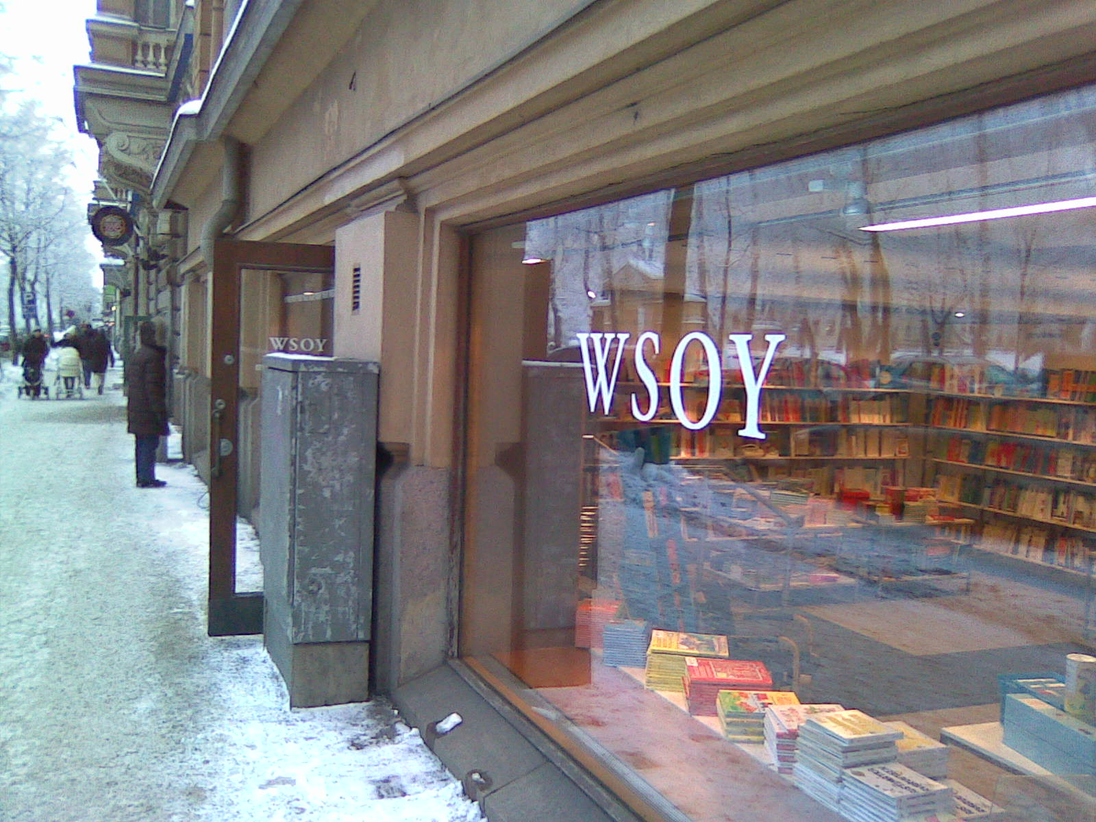 WSOY shop in Helsinki.